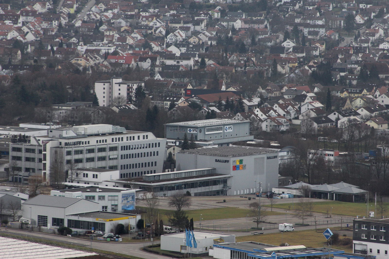 Balluff, a sensor technology company located at Neuhausen / Fildern in Baden-Württemberg (southern Germany), as seen from a plane during the approach to the almost adjacent Stuttgart-Echterdingen airport (STR).